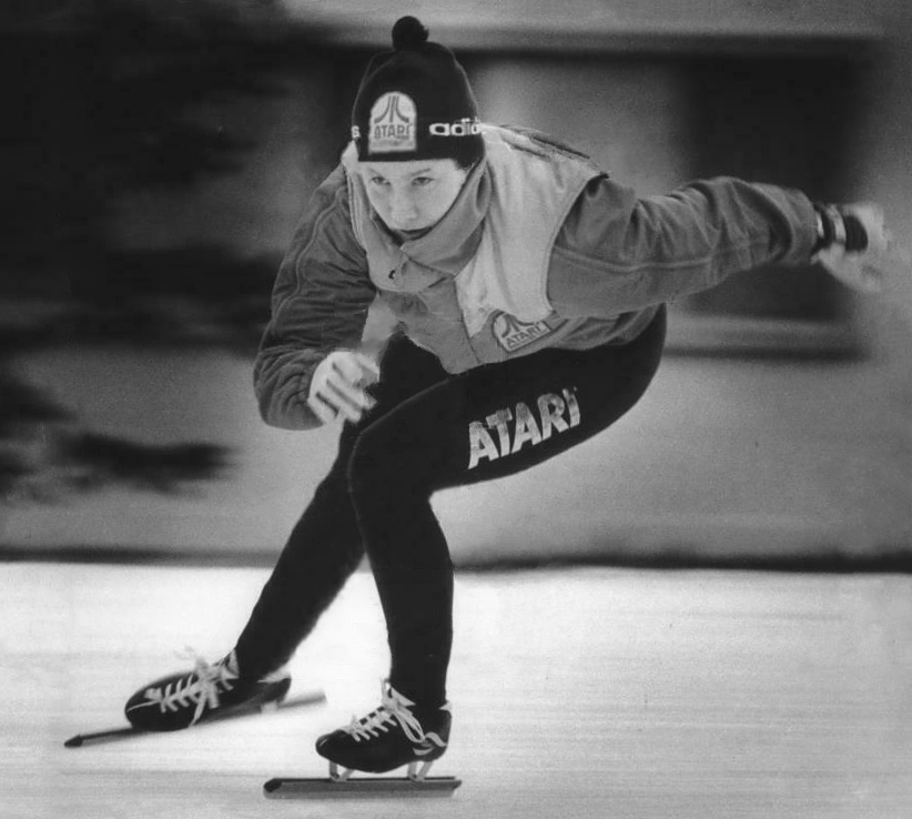 1983 Press Photo Mary Docter in training for the 1984 Olympics in speed skating.